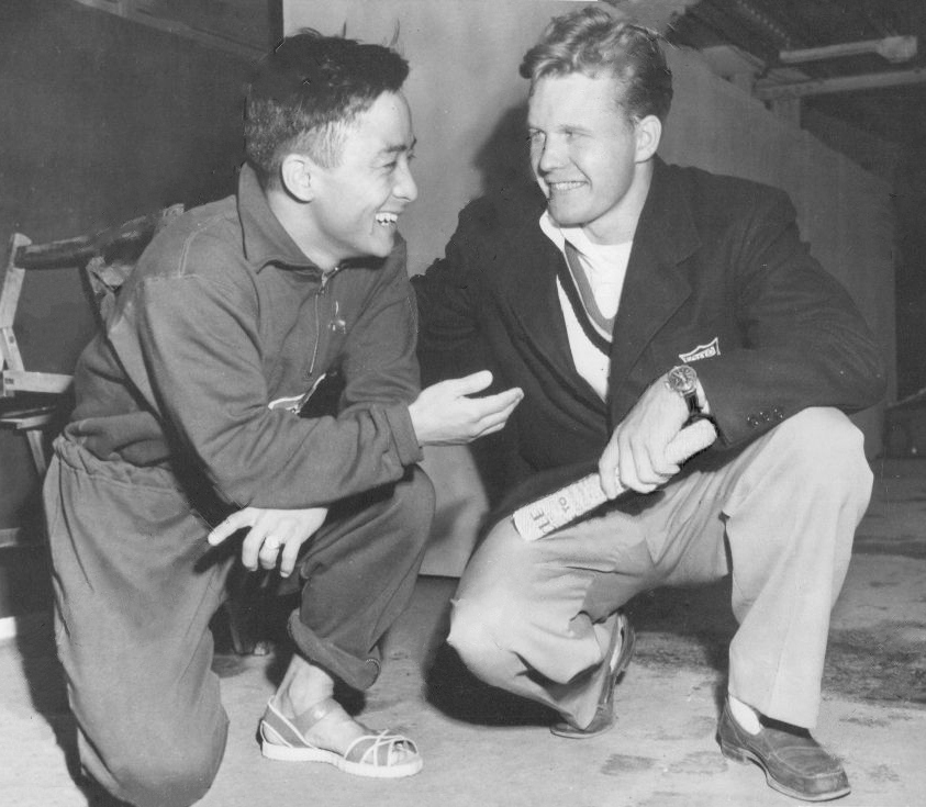 1948 England Dr Sammy Lee Gave Diving Advise to Miller Anderson Press Photo